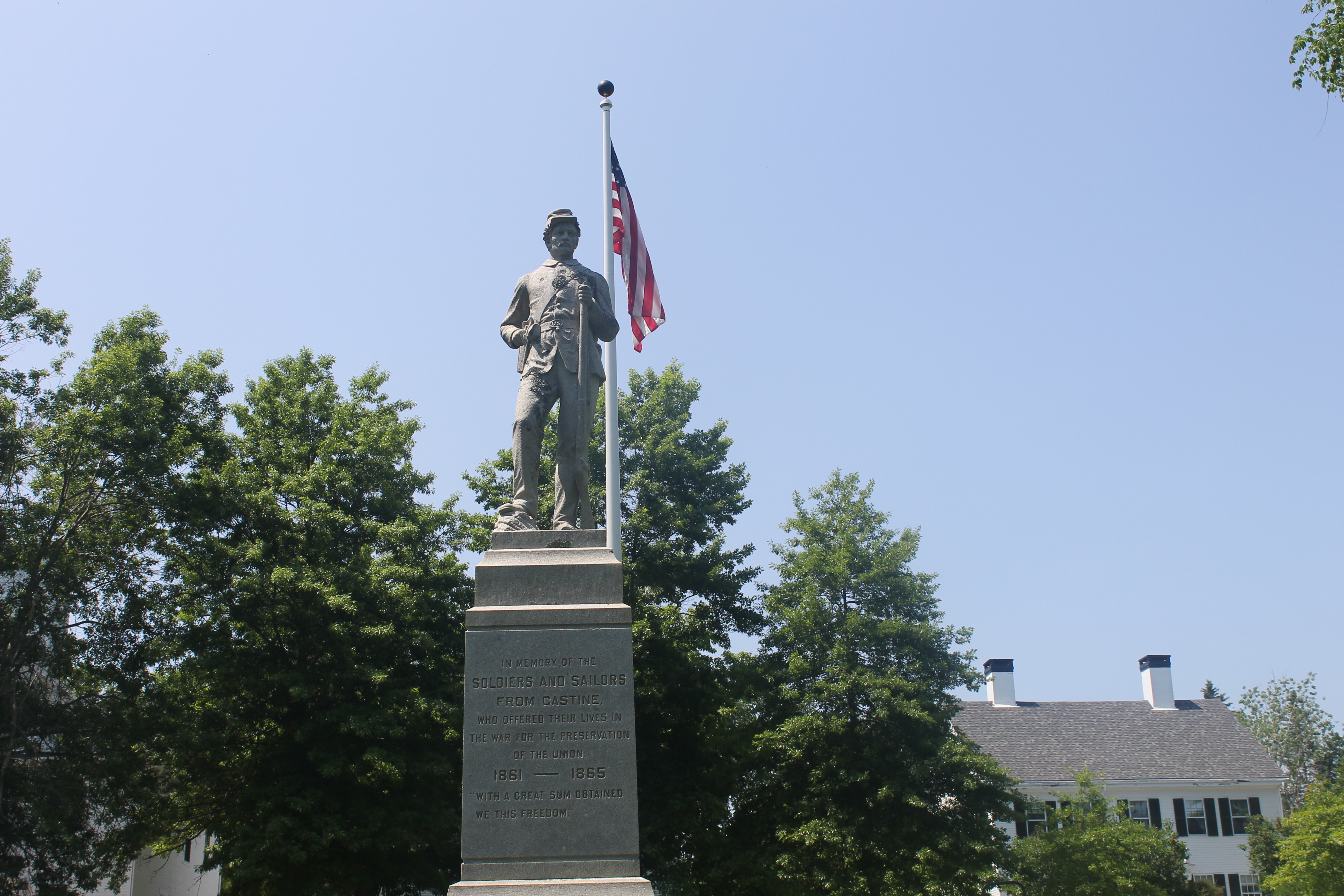 I took photo of Union war memorial in Castine, ME, using Canon camera.